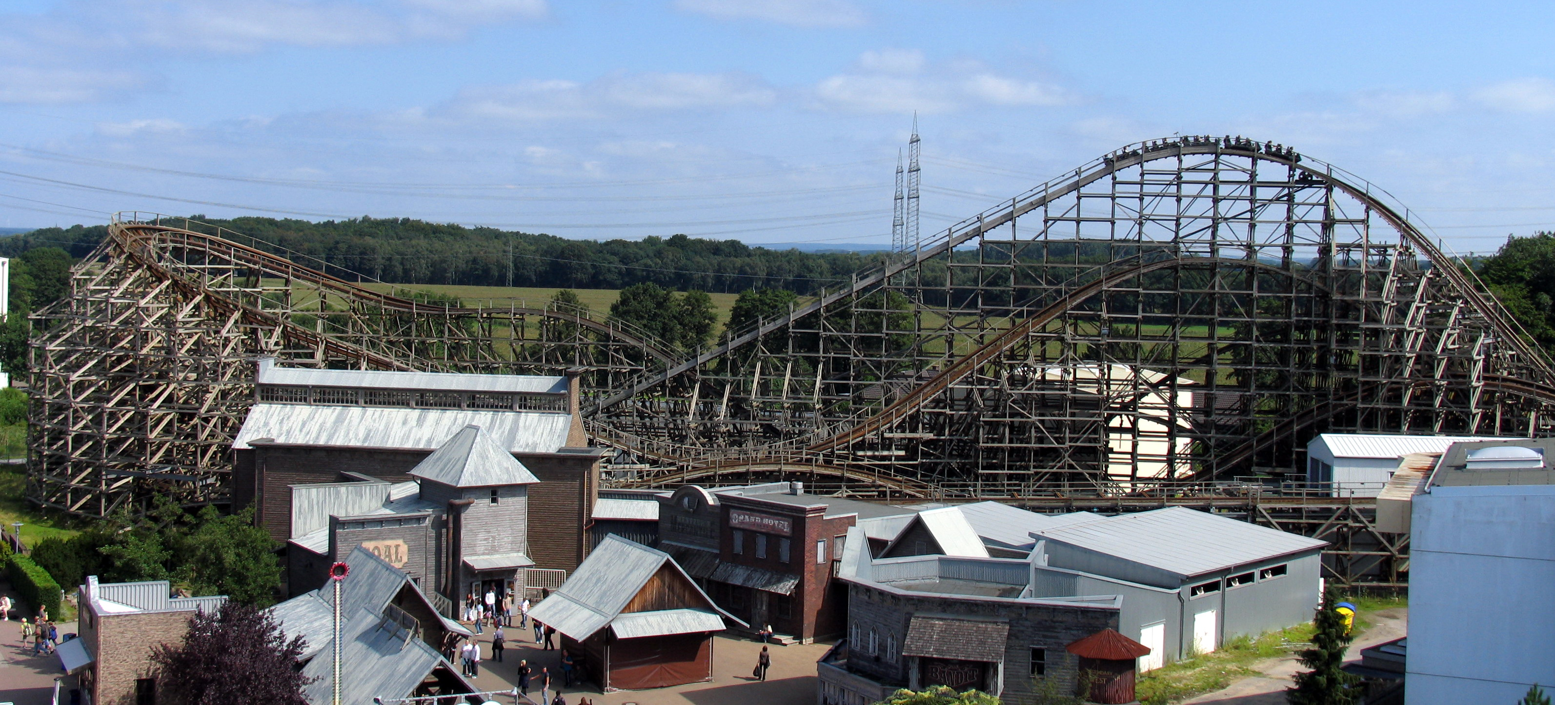 Wooden Roller coaster Bandit at Movie Park Germany